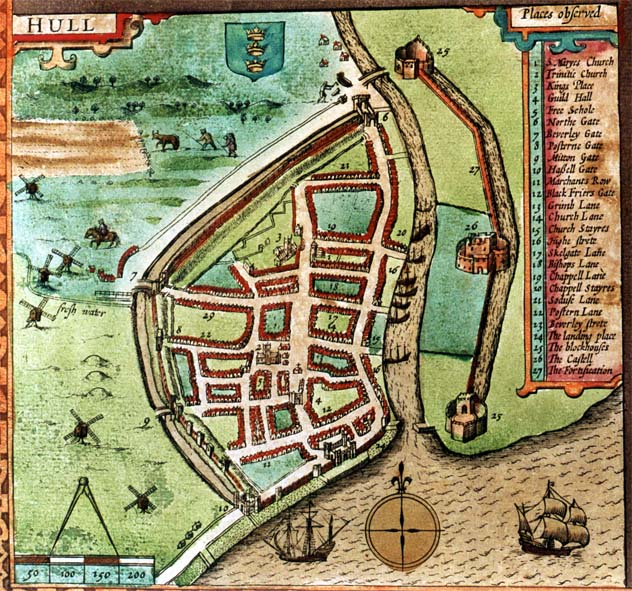 1611 map of Kingston upon Hull by John Speed City walls and Hull Castle are shown. Other places noted in margin